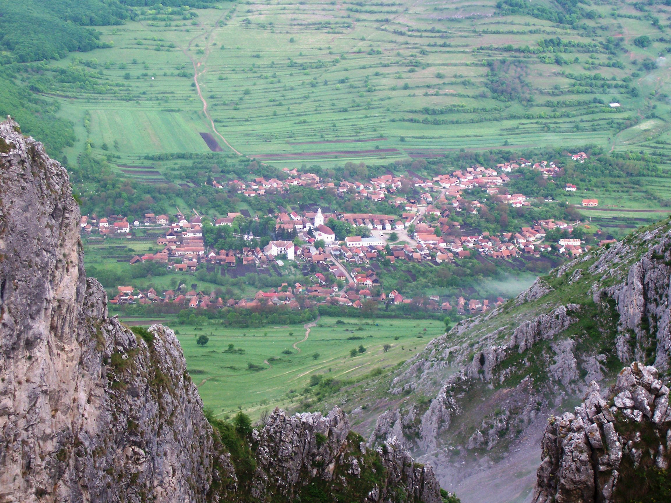 Rimetea, Romania, seen when climbing Piatra Secuiului.